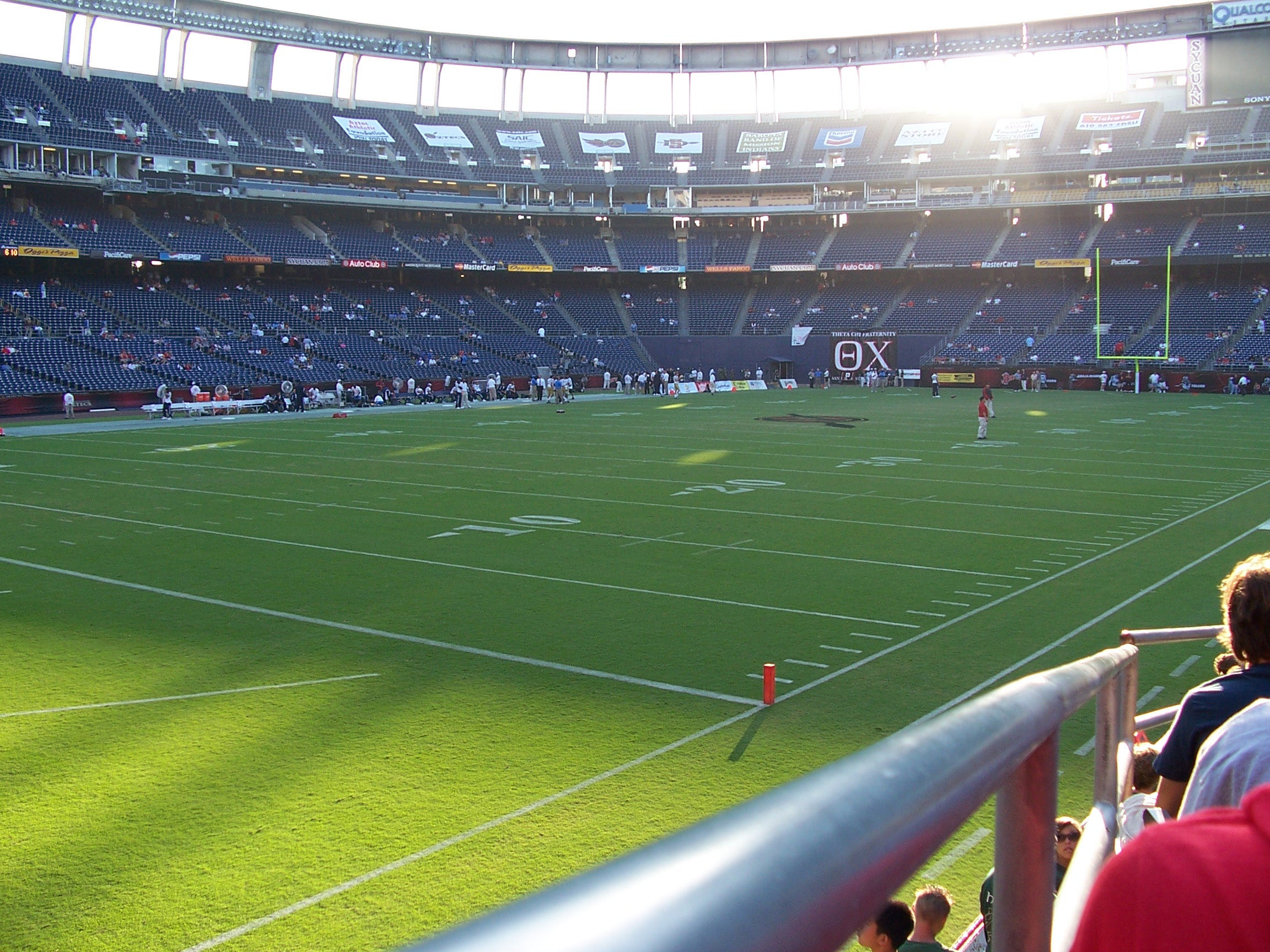 The interior of Qualcomm Stadium in San Diego, CA. 19:23, 10 May 2006 . . Nehrams2020 . . 2304×1728 (1,125,349 bytes) (My picture at Qualcomm Stadium in San Diego, CA.)